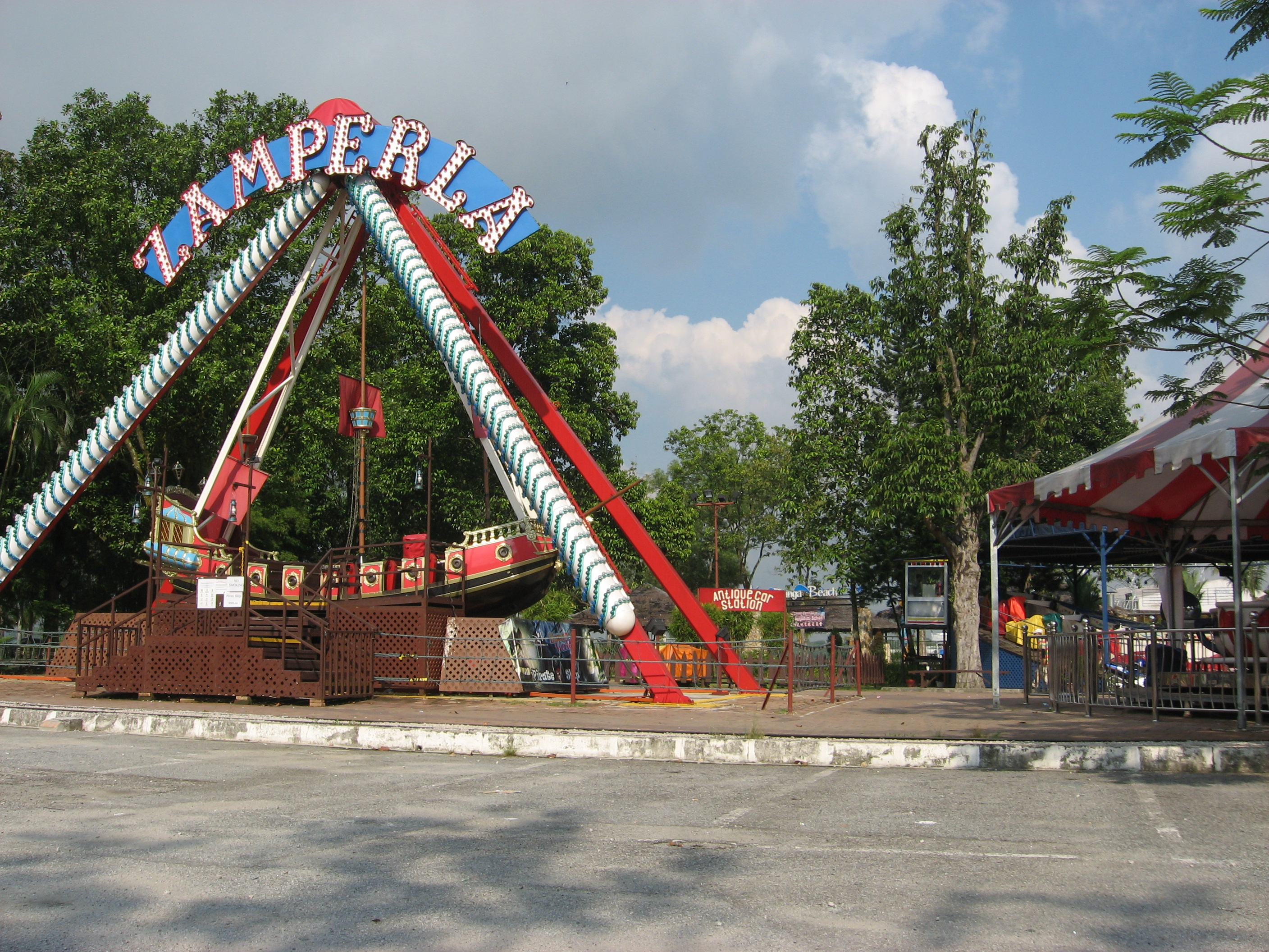 Danga Bay 1